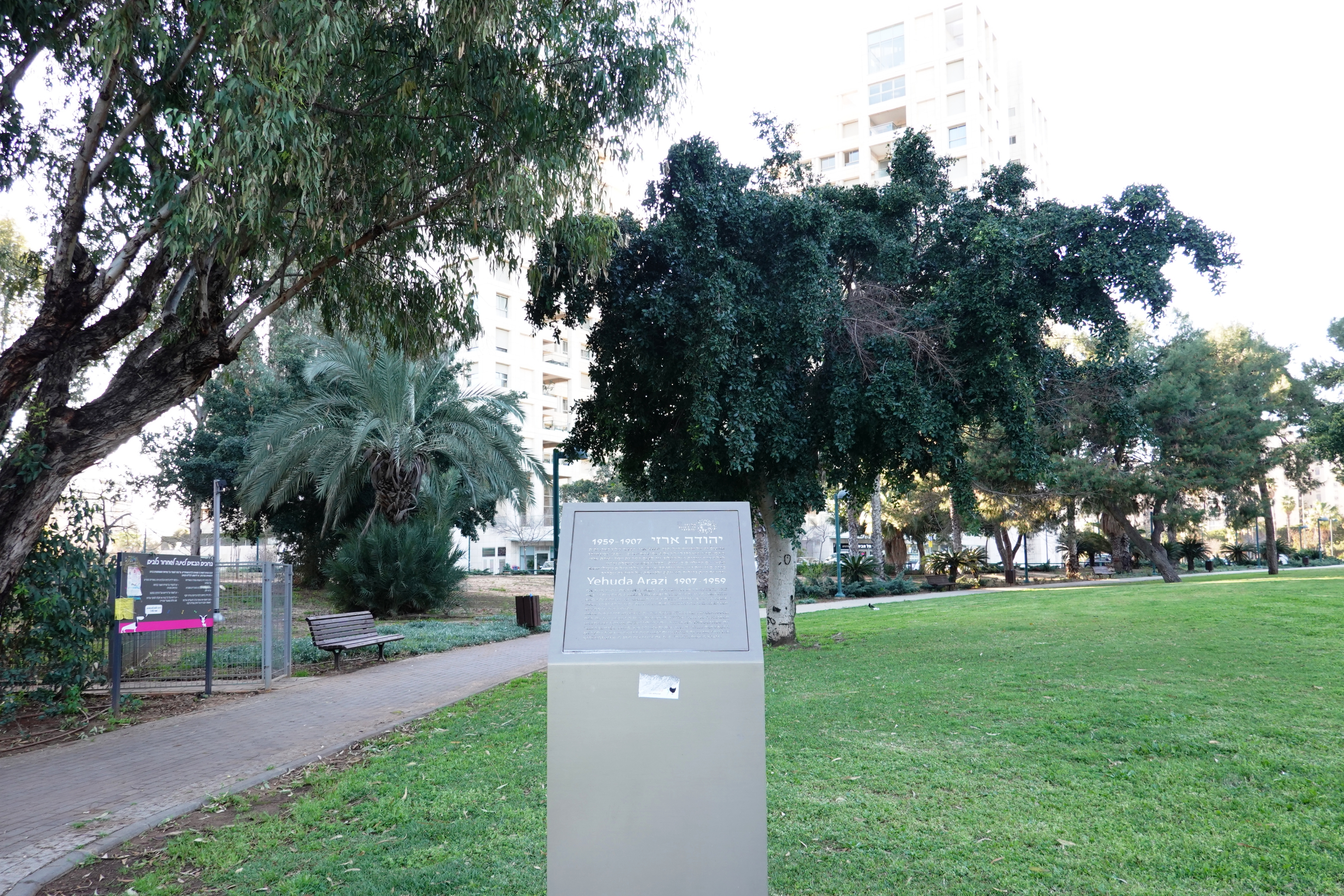 A memorial to Yehuda Arazi at the entrance to the Ramat Aviv Hotel